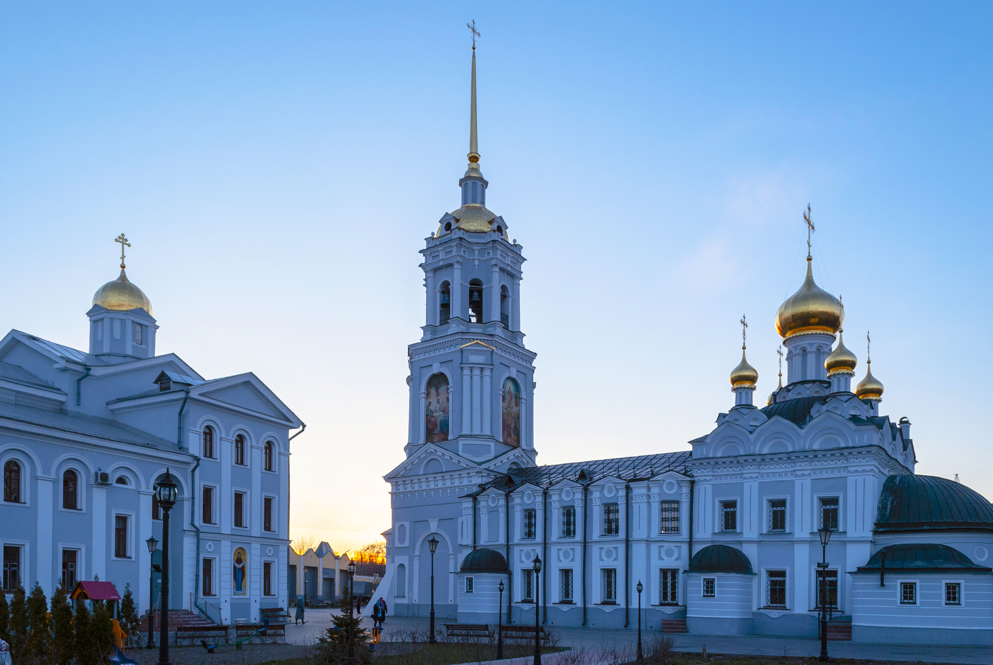 Transfiguration (Karpovskaya) Church in Nizhny Novgorod